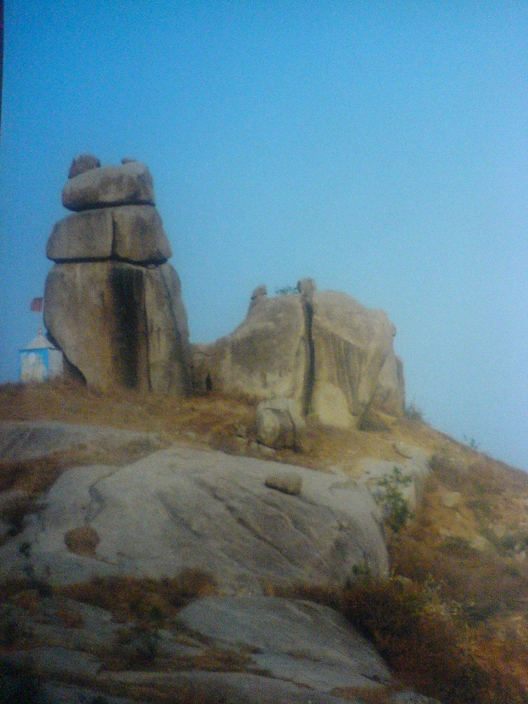 on our rock walk with society for the peservation of rocks, hyderabad.